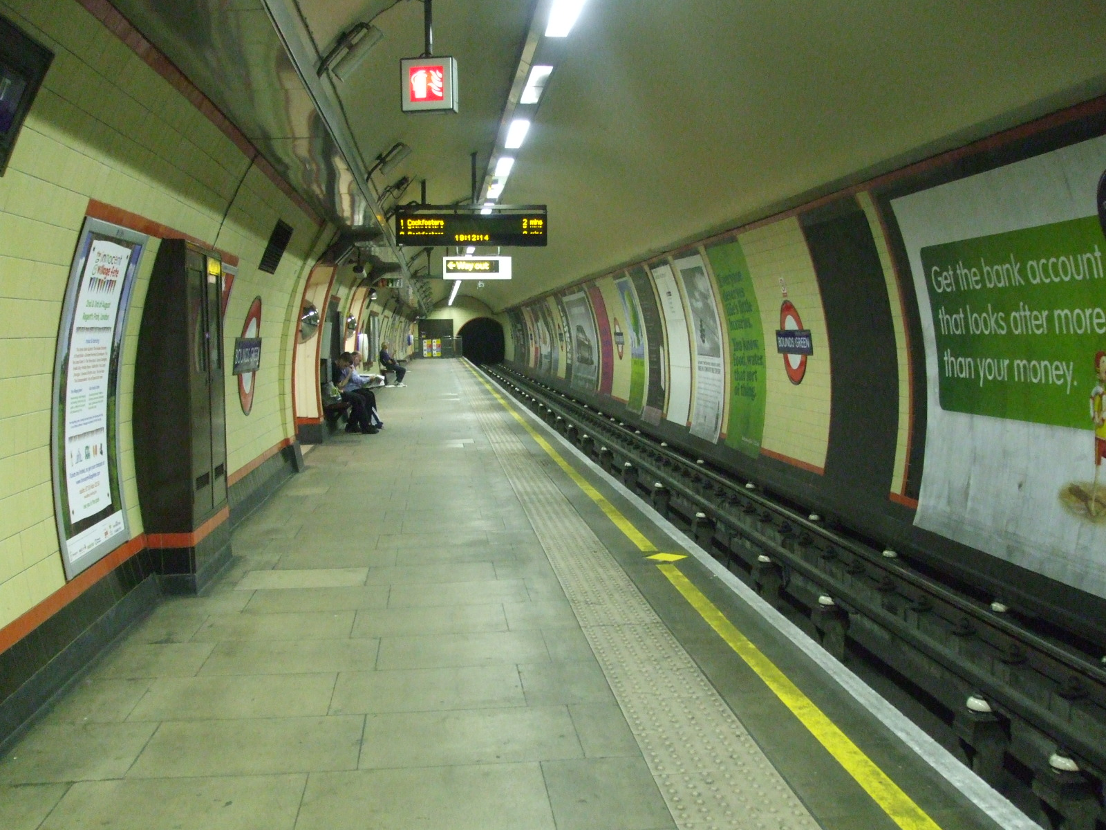 Bounds Green tube station northbound platform looking south